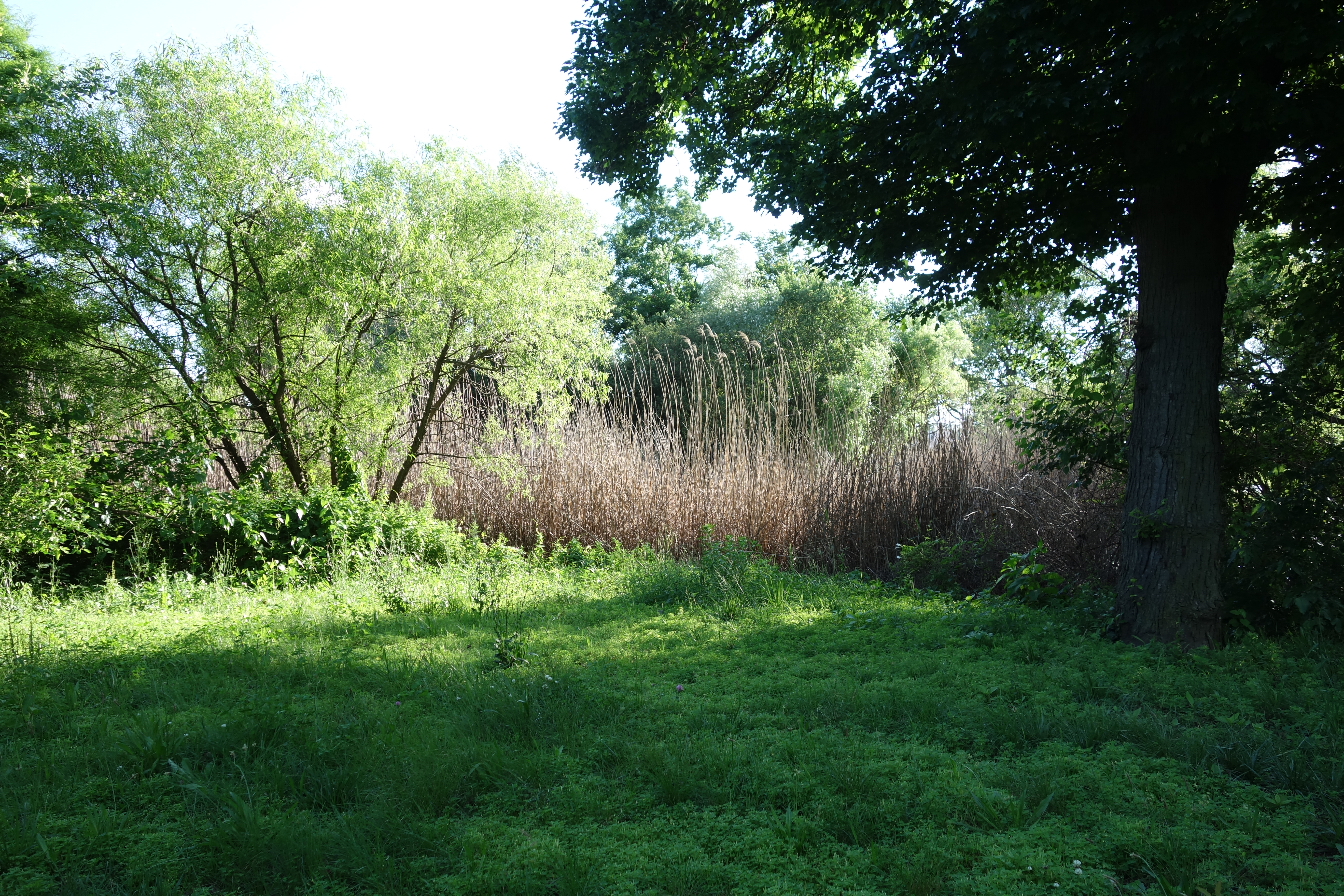 The vegetation and trees on the east side of the pond near the center of Roy Wilkins Park (Roy Wilkins Recreation Center), at Merrick Boulevard and Foch Boulevard in St. Albans, Queens. The stage and the adjacent pond were constructed in 1997, but the pond is secluded by this vegetation, and may be unknown to many parkgoers.